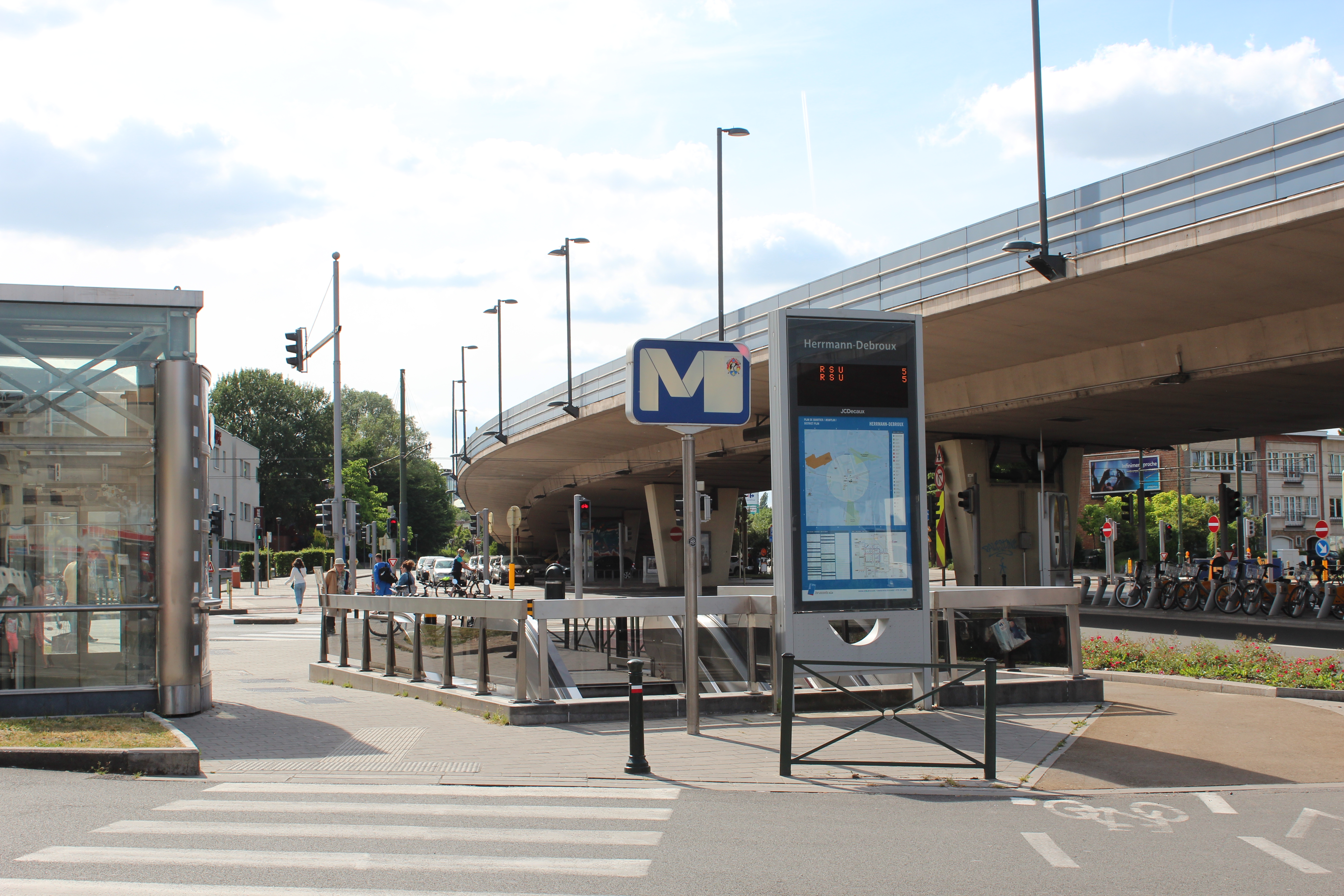 Boulevard Herrmann-Debroux/Herrmann-Debrouxlaan. Entance to eponymous metro station (South side).